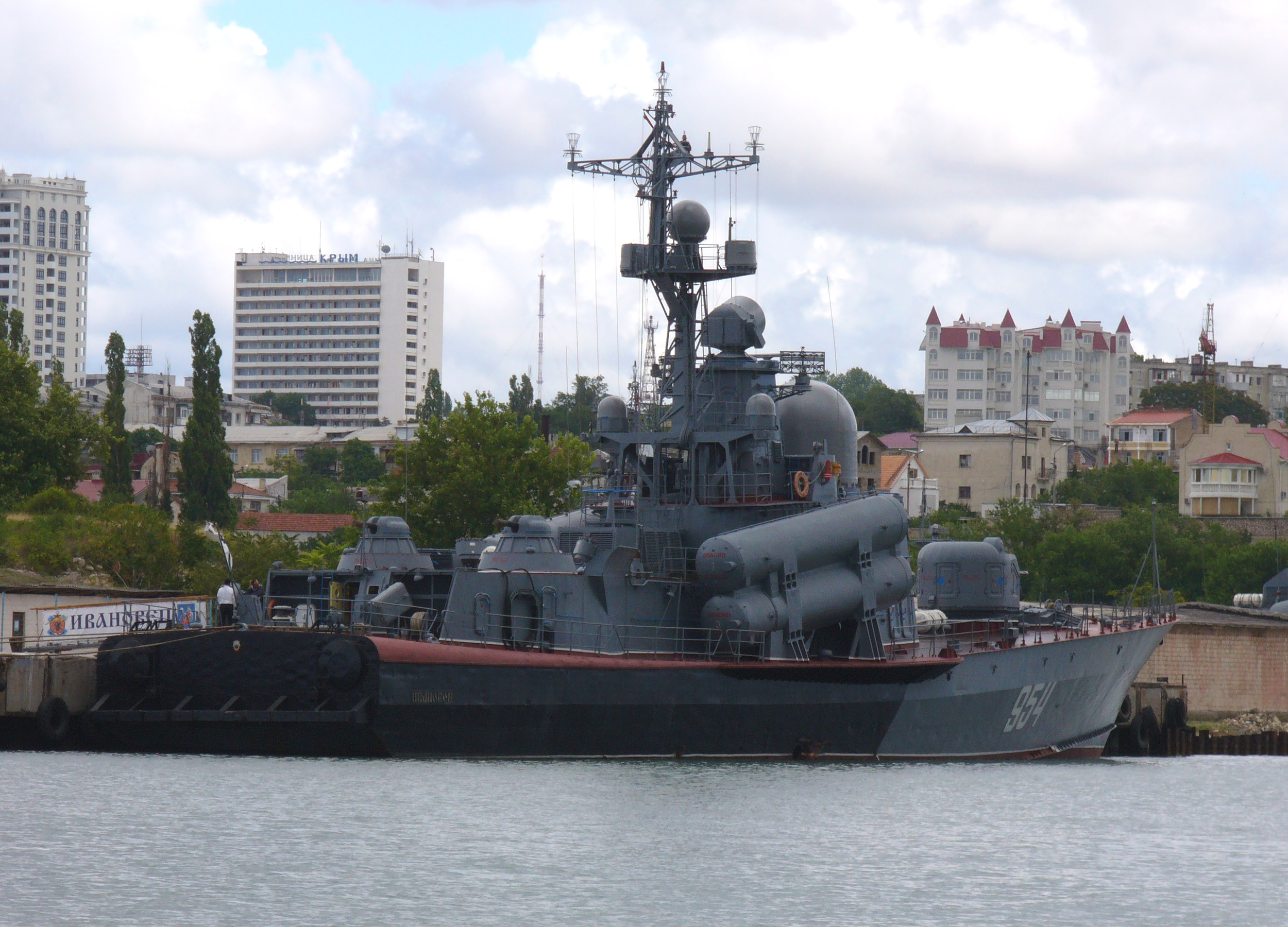 Project 12411M boat R-334 "Ivanovets".